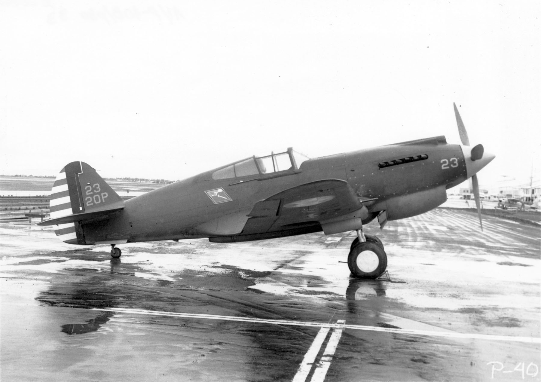 Curtiss P-40